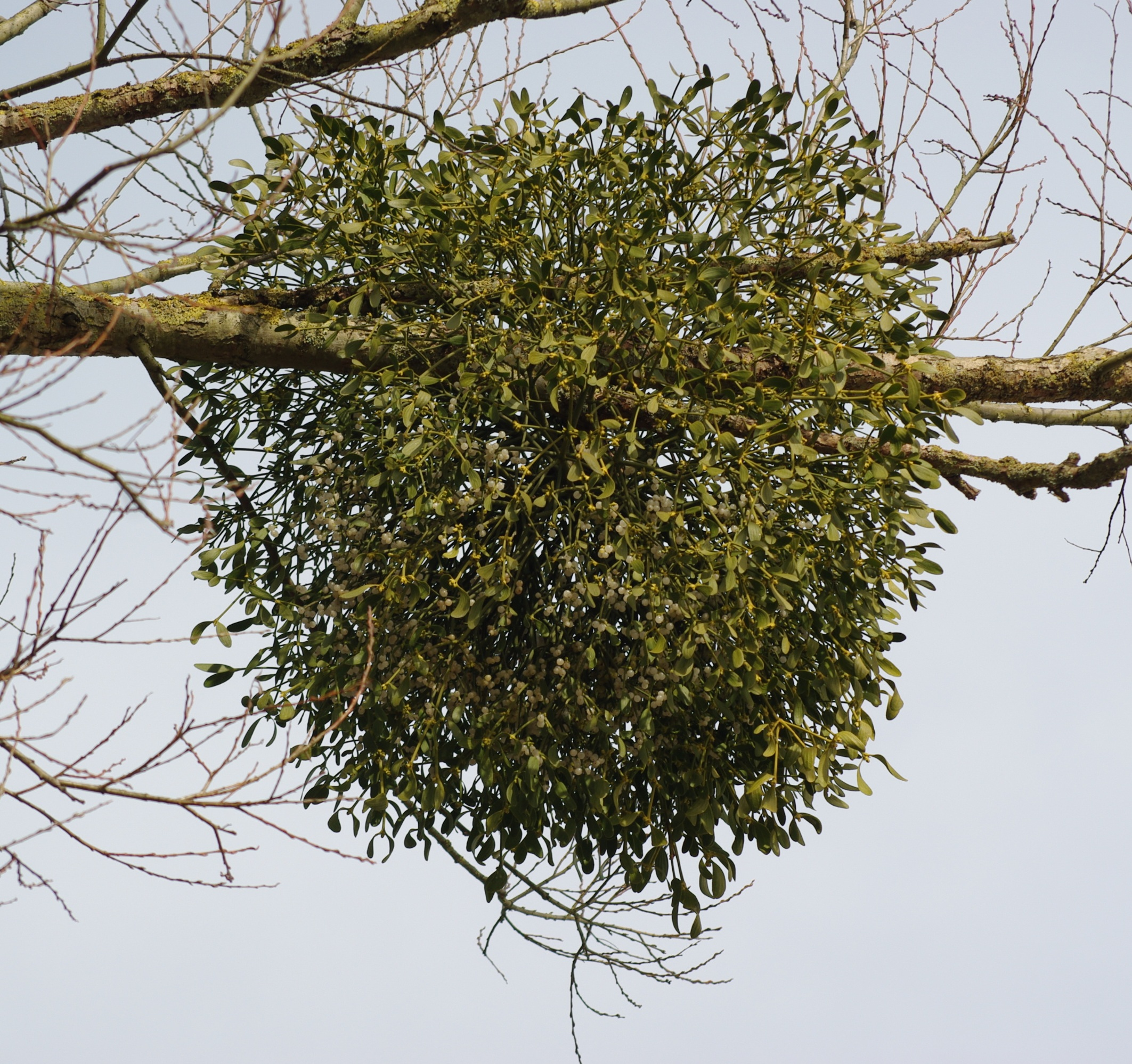 mistletoe, photographed at Durmersheim